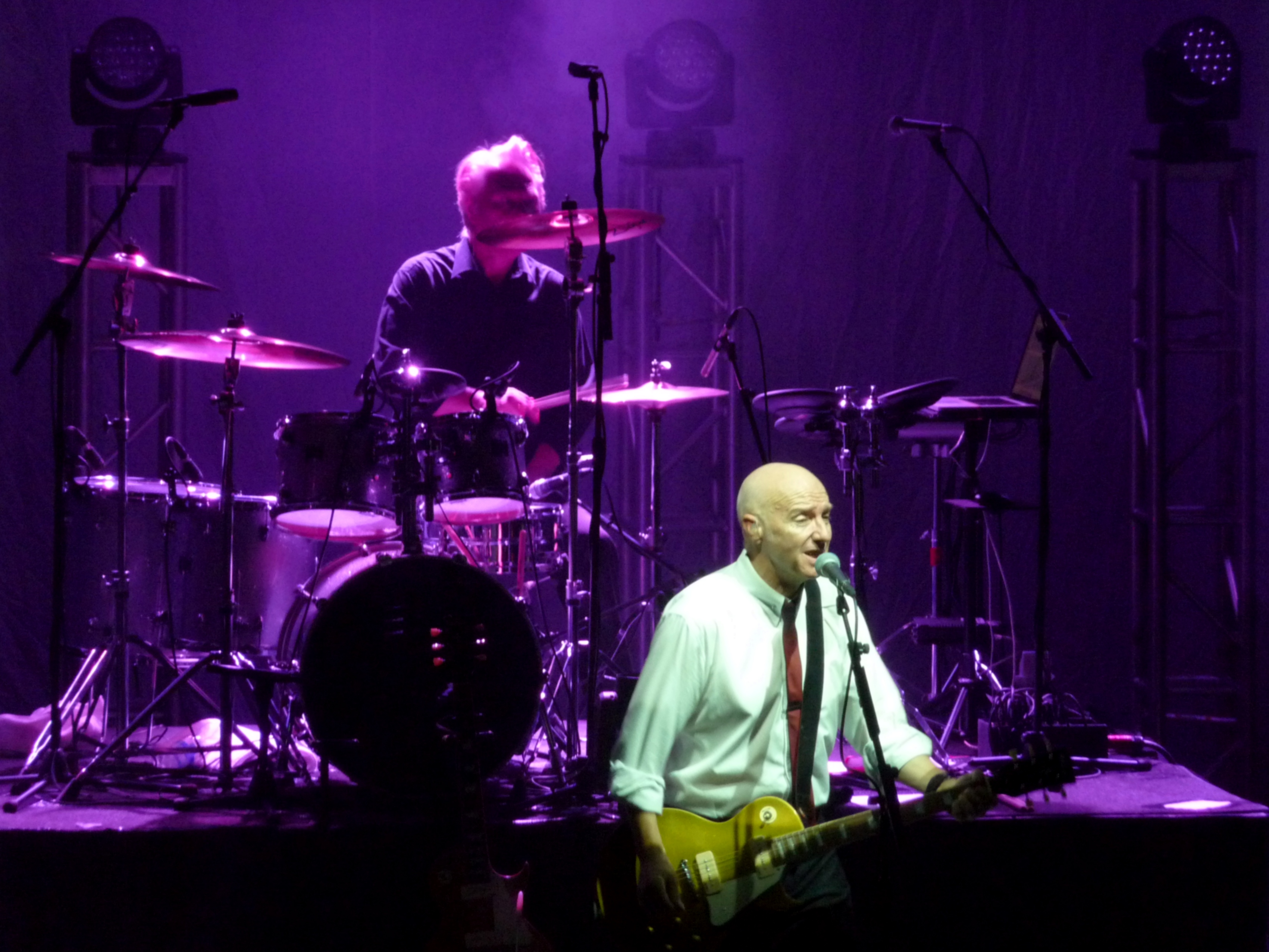 Ultravox playing "Brilliant" tour concert at C-Halle (Columbiahalle), Berlin, Germany